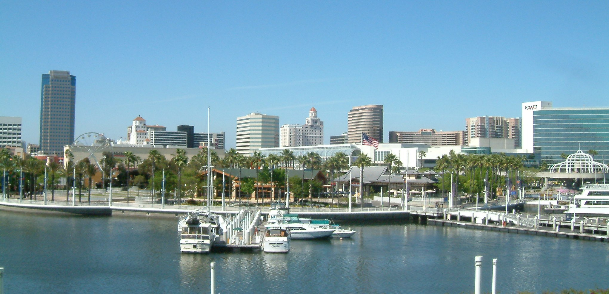 Long Beach, California, United-States.